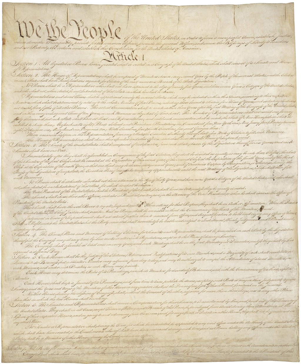 The Federal Convention convened in the State House (Independence Hall) in Philadelphia on May 14, 1787, to revise the Articles of Confederation. Because the delegations from only two states were present initially, the members adjourned from one day to the next until a quorum of seven states was obtained on May 25. Through discussion and debate it became clear by mid-June that, rather than amend the existing Articles of Confederation, the convention would draft an entirely new framework for the government. All through the summer, the delegates debated, drafted, and redrafted the articles of the new Constitution in closed sessions. Among the chief points at issue were how much power to allow the central government, how many representatives in Congress to allow each state, and how these representatives should be elected--directly by the people or by the state legislators. The Constitution was the work of many minds and stands as a model of cooperative statesmanship and the art of compromise. Constitutions; Politics and government